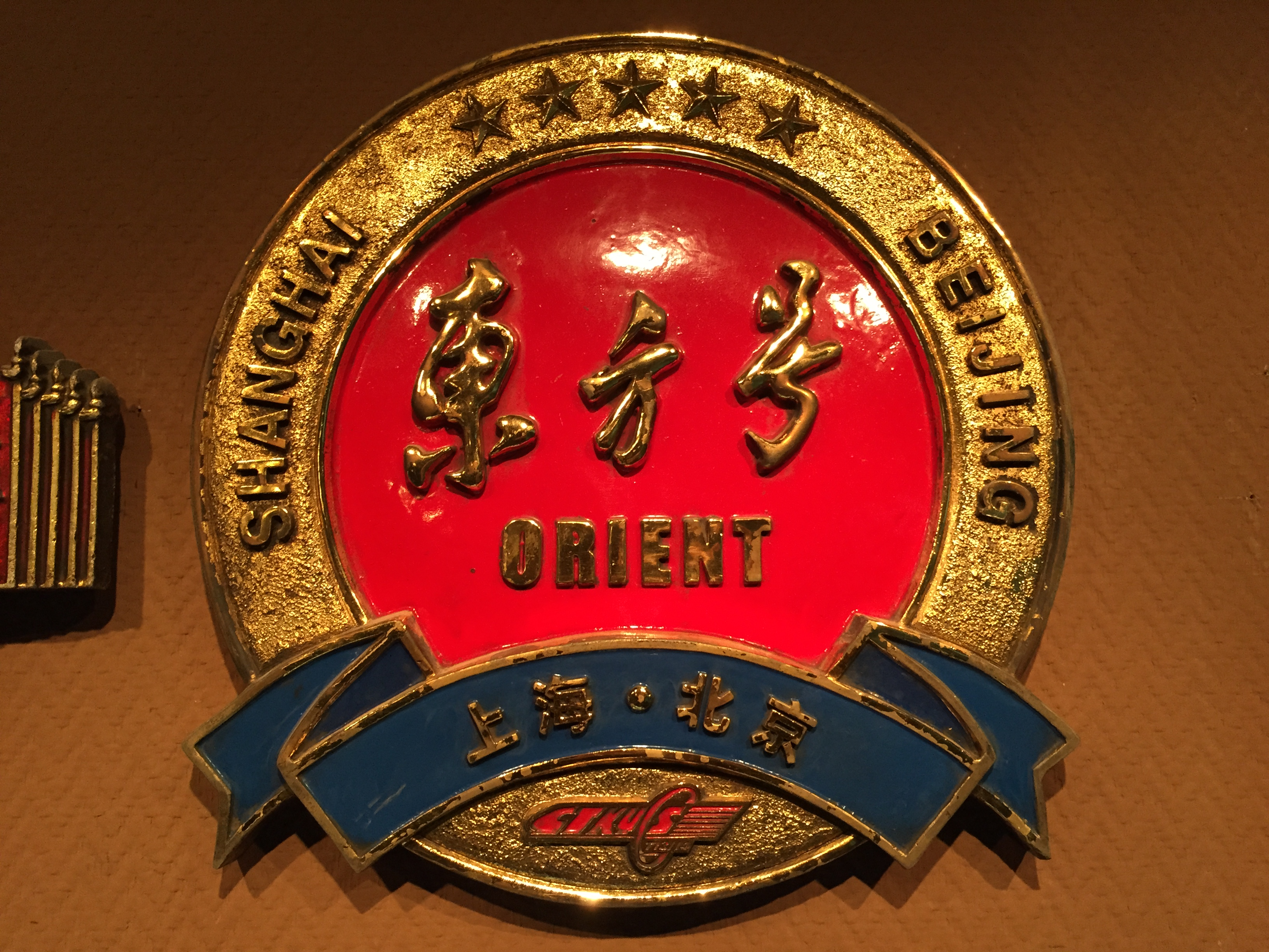 The T13/14 Beijing-Shanghai express train (Z13/14 from 2004 to 2009) was a glory of Shanghai Railway Bureau. It's not to be confused with Orient Express, or K19/20 "Vostok" train which runs from Beijing to Moscow. This logo features the handwriting of Jiang Zemin, the then president, who worked as the mayor of Shanghai in the 1980s.